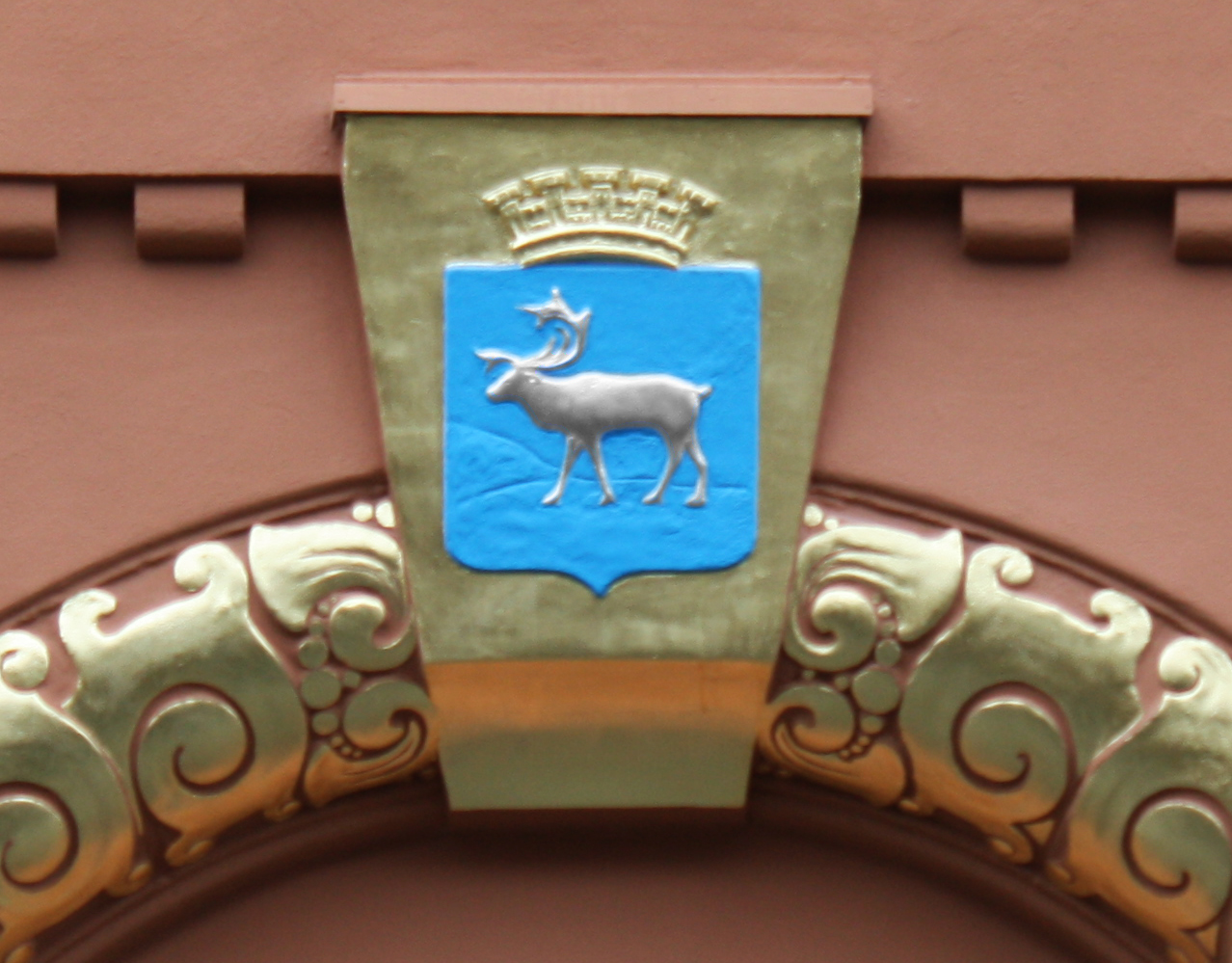 Tromsø kommunes våpenskjold, slik det er murt på inngangen til SpareBank 1 Nord-Norges (tidligere Tromsø sparebank) bygning i byen, populært kalt Rødbanken.